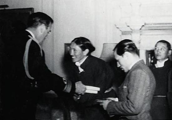 Tsepon Shakabpa met with the last British Viceroy of India, Lord Louis Mountbatten, in 1948. Kuladharma Ratna translated, while Pomdawa Lozang Yarpel, member of the Trade Mission, stood in the background.